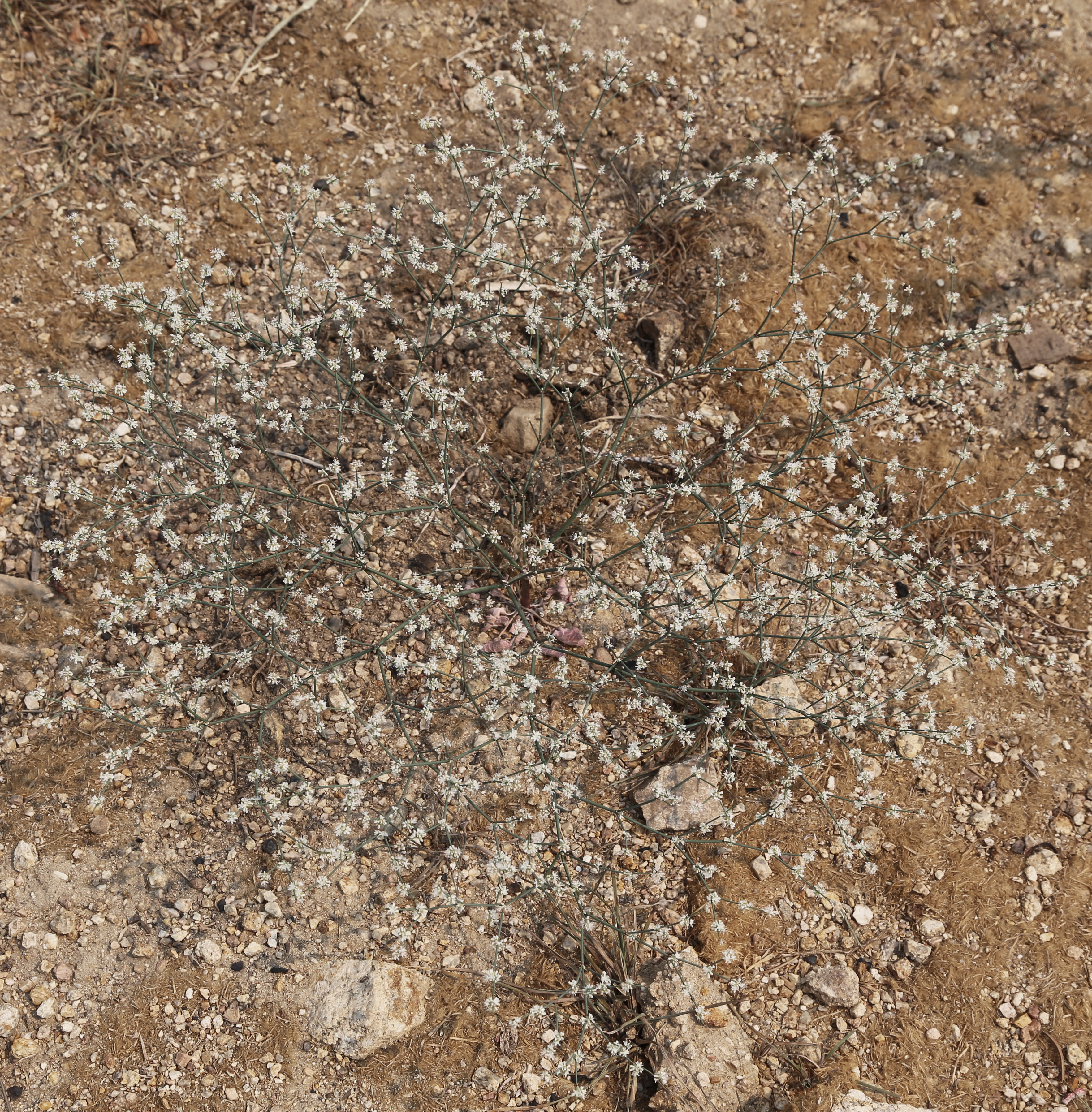 Spurry buckwheat (Eriogonum spergulinum) plant, in flower. At 6,600 ft (2,000 m) in the Eastern Sierra, Mono County California.